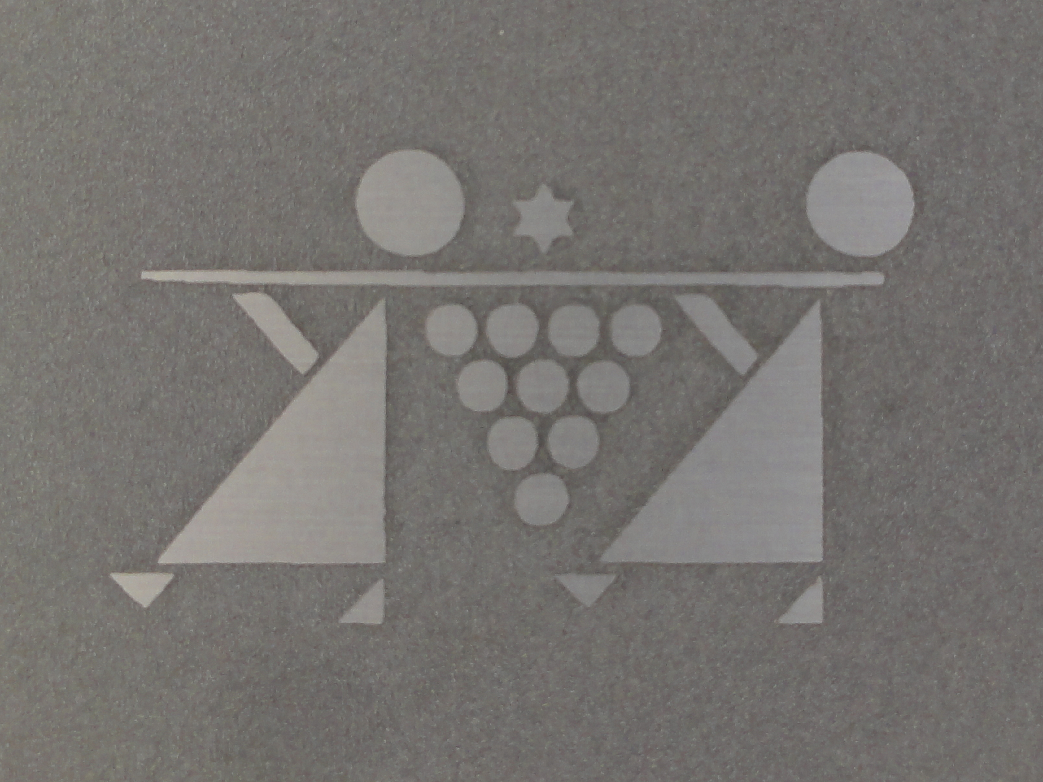 Israelites carrying grapes of Canaan; Old Jerusalem, Armenian quarter, corner of Saint James and The Armenian Patriarchate road.